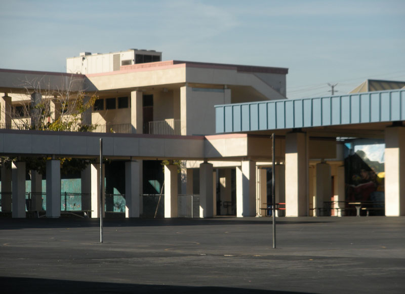 Lockwood Avenue School, Los Angeles CA